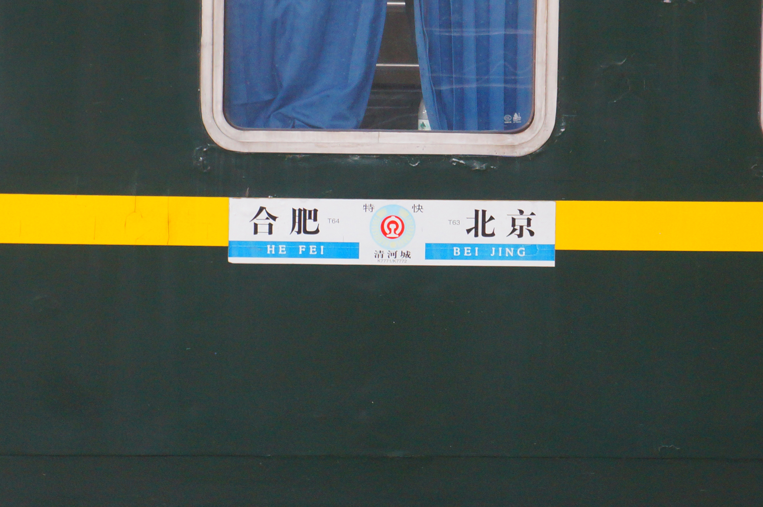 T63 34 infoboard in 201705, the DF11G was sheltered by K8387